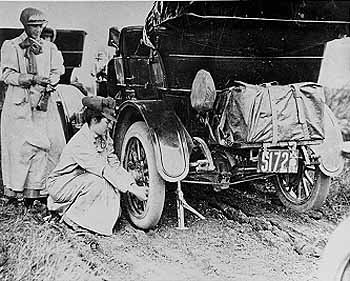 Alice Huyler Ramsey (1887-1983) in 1909. Asphalt roads were a rarity and repairs frequent during the pioneer cross-country drive of Alice Huyler Ramsey in 1909. Shown here changing a tire on her green Maxwell (Original text: Rutgers Unviversity Archive (Link added by Lupo 10:53, 20 March 2006 (UTC).))